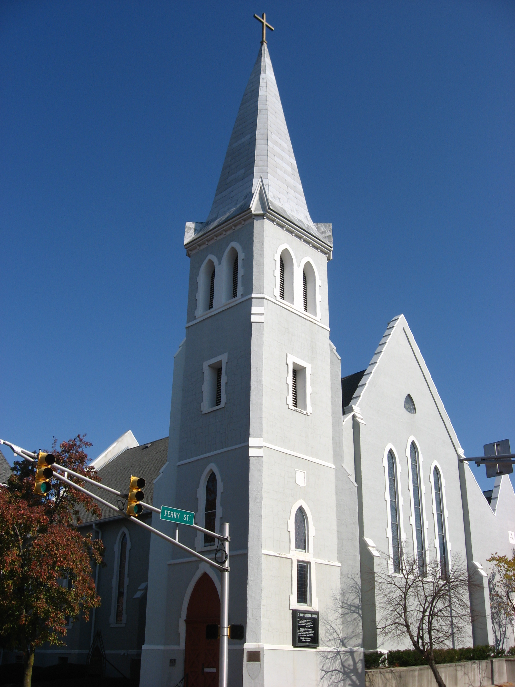 Front of St. John's Episcopal Church, located at 315 N. Sixth Street in Lafayette, Indiana, United States. For a time, it served as the cathedral for the present-day Diocese of Indianapolis. Built in 1857, it is listed on the National Register of Historic Places.